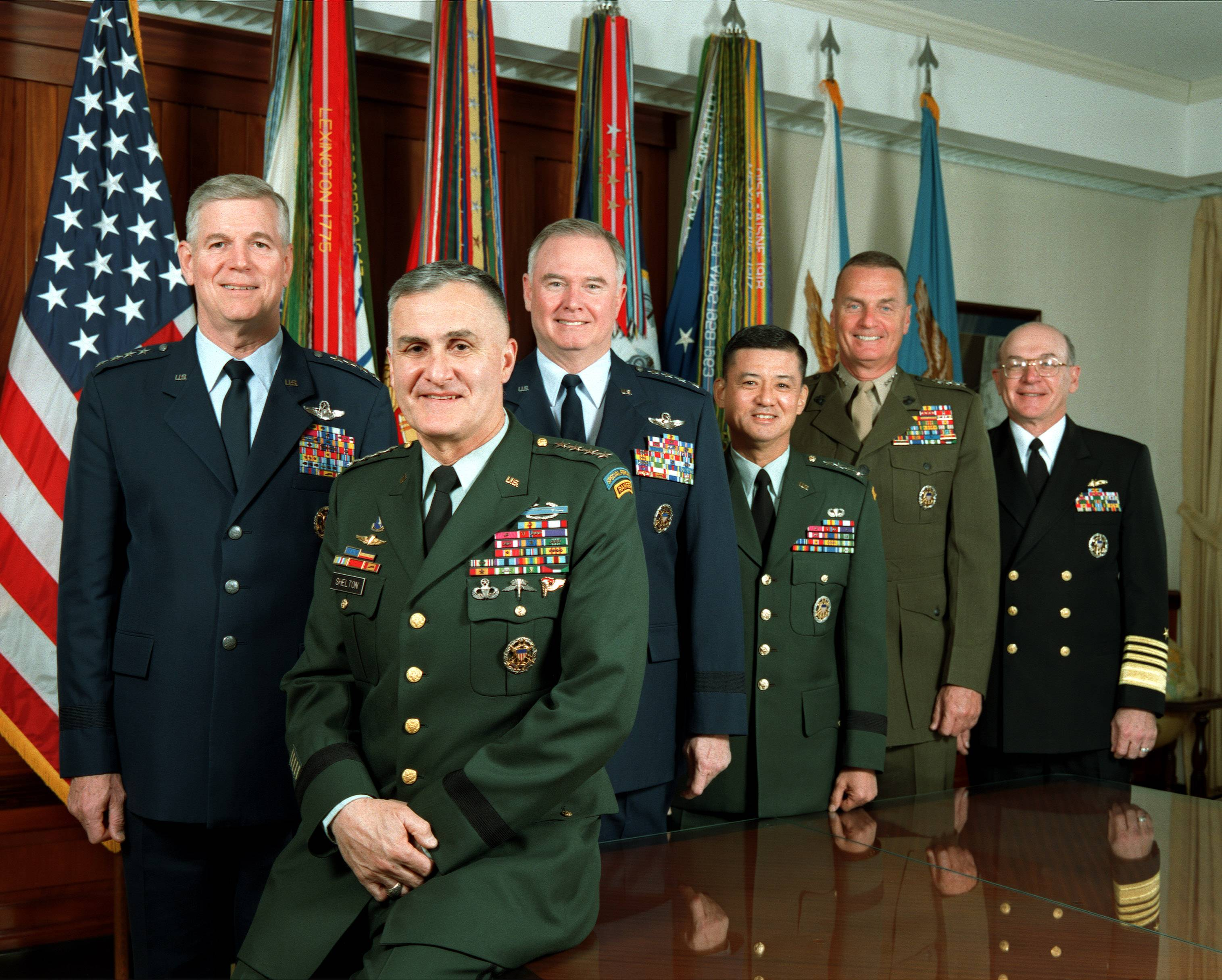 The Joint Chiefs of Staff, photographed in the Joint Chiefs of Staff Gold Room in the Pentagon. From left to right are: Vice Chairman of the JCS Gen. Richard Myers, U.S. Air Force, Chairman of the JCS Gen. Henry Shelton, U.S. Army, U.S. Air Force Chief of Staff Gen. Michael Ryan, U.S. Army Chief of Staff Gen. Eric K. Shinseki, U.S. Marine Corps Commandant Gen. James L. Jones, and U.S. Navy Chief of Naval Operations Adm. Vern Clark.